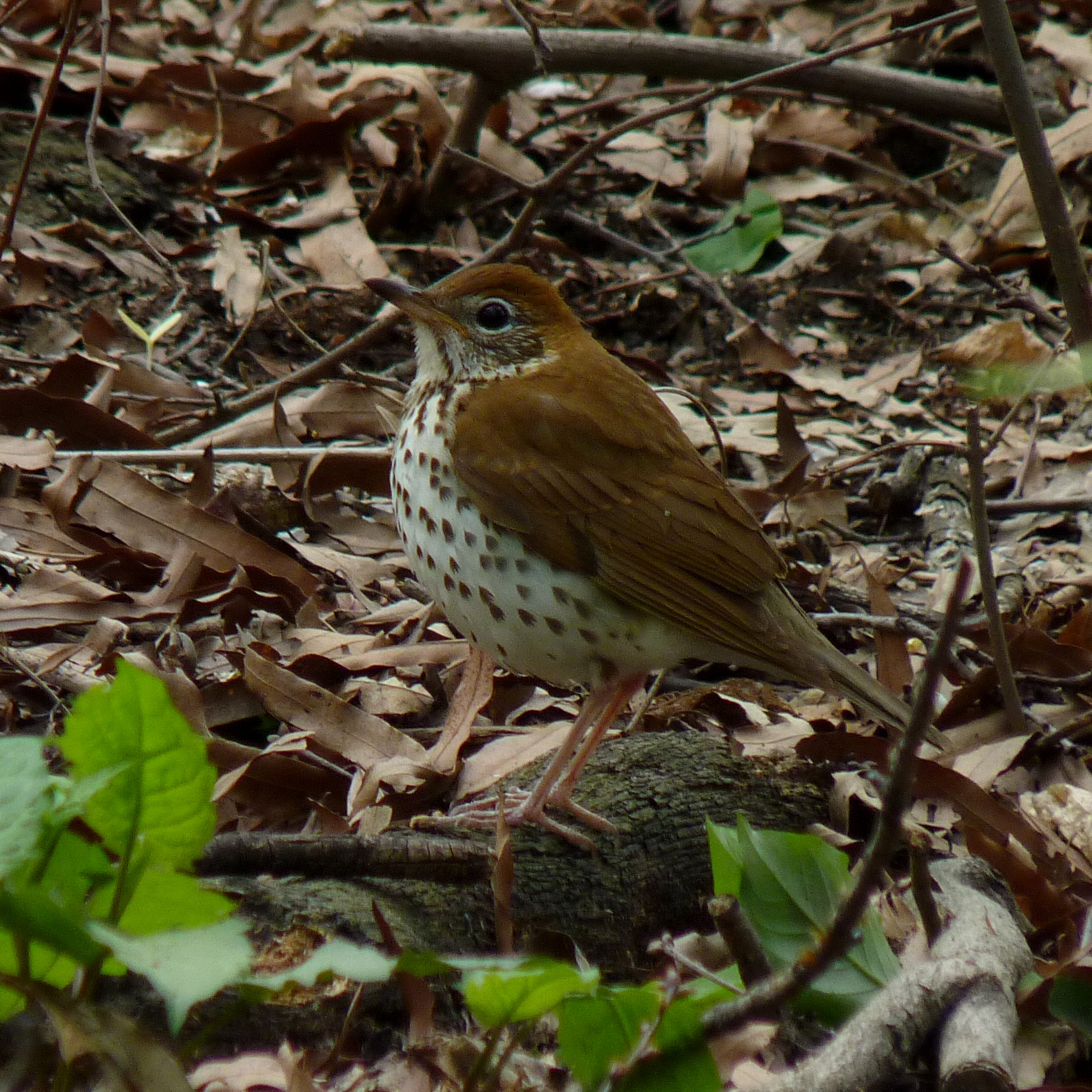 A Wood Thrush in Central Park, New York, USA.